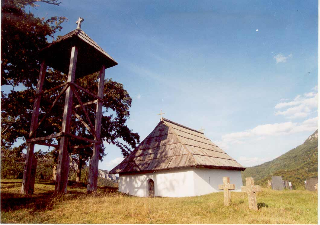 Orthodox church in Čelebići